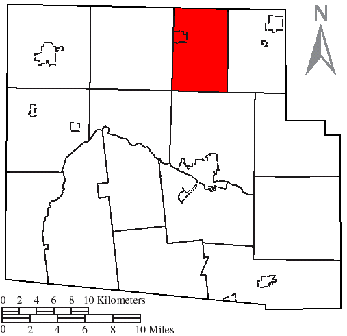 Made by the US Census and modified by myself to highlight the township